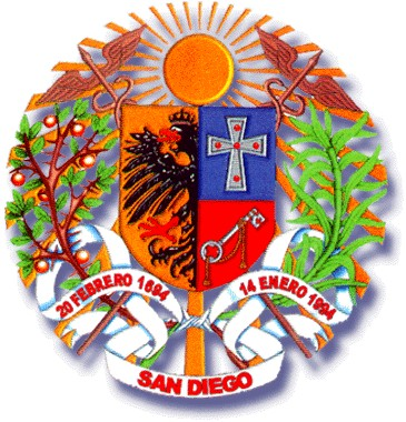 Coats of arms San Diego Carabobo Venezuela